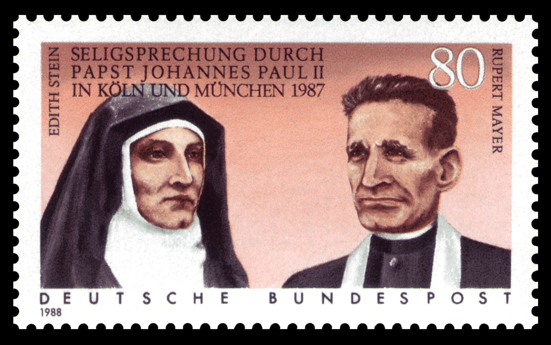 Beatification of Edith Stein and Rupert Mayer